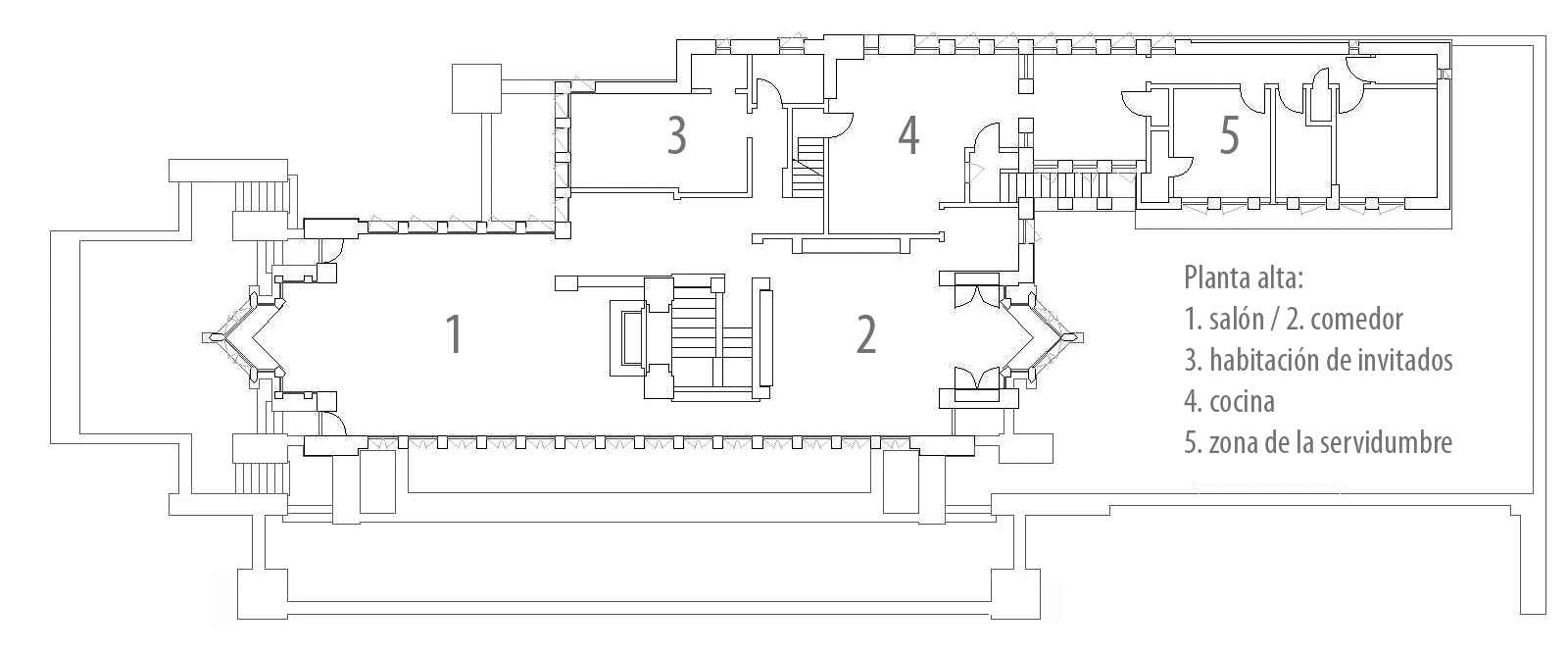 Top floor of the Robie House by Frank Lloyd Wright.